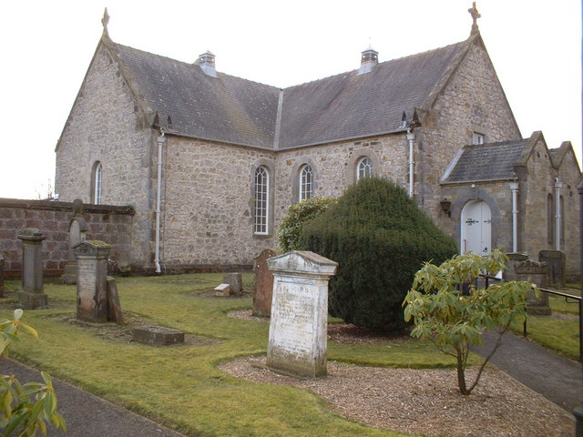 Whitburn South Kirk Originally built in 1729. Re-opened after a fire in 1959. Re-pointed with lime mortar in 1990's and floodlit at night since 2000.